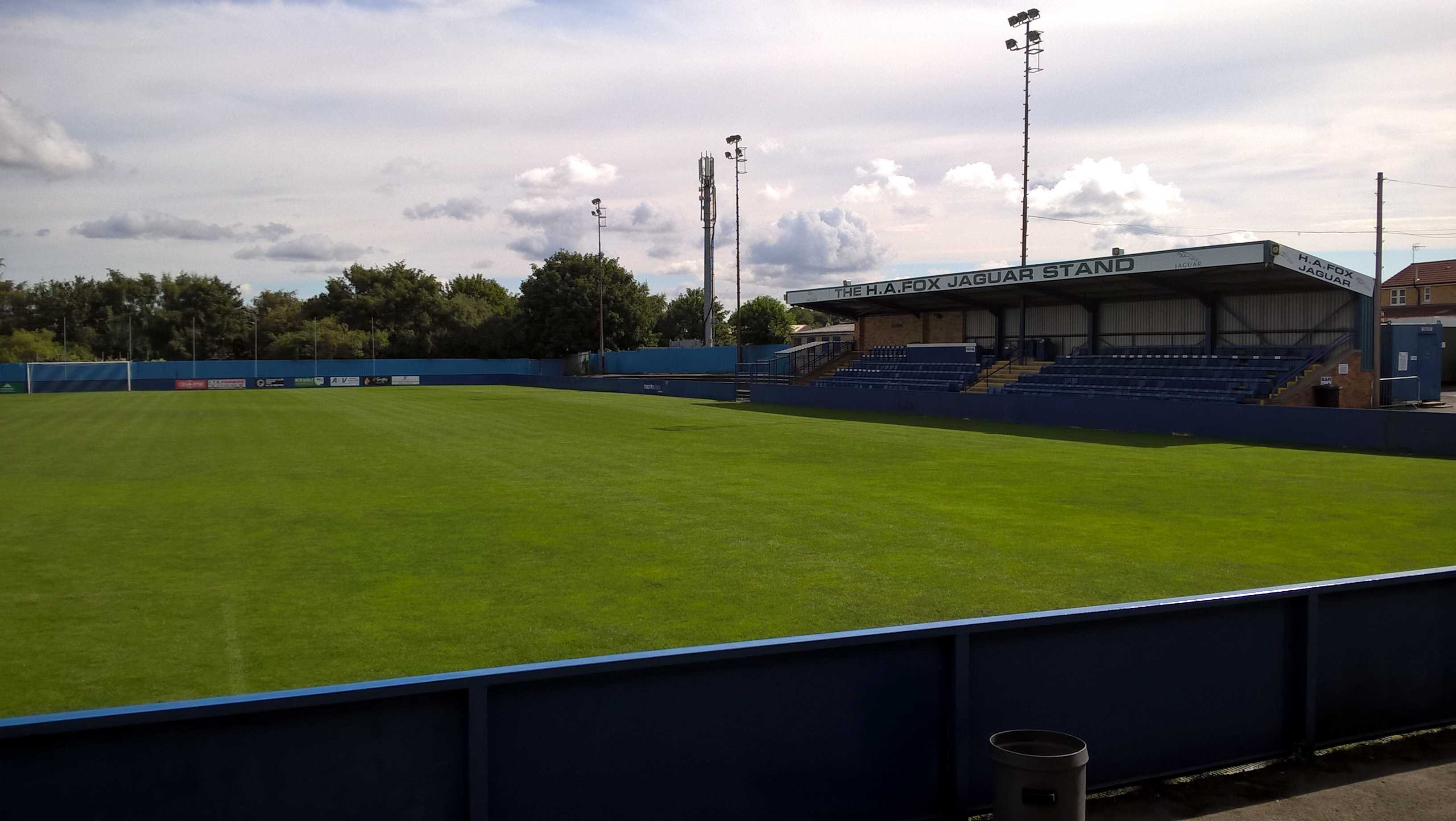 Farsley Celtic football ground (Throstle Nest). View from West Stand looking towards the Main Stand on the South side.